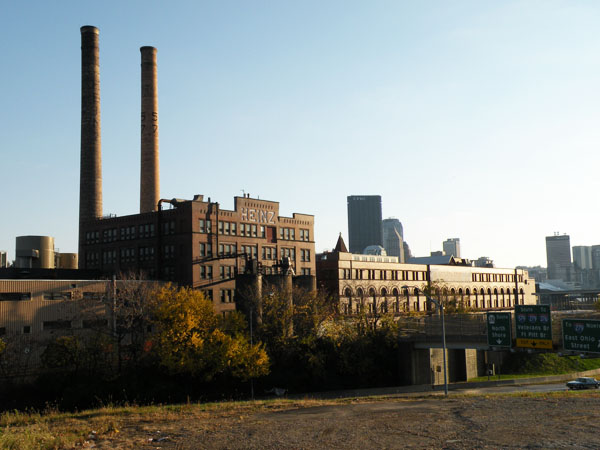 Picture of the H. J. Heinz Company, located in the Troy Hill neighborhood of Pittsburgh, Pennsylvania, United States. The Heinz Company has operated at this location since 1890, and is listed on National Register of Historic Places. Company address: 1062 Progress Street, Pittsburgh, PA 15212.